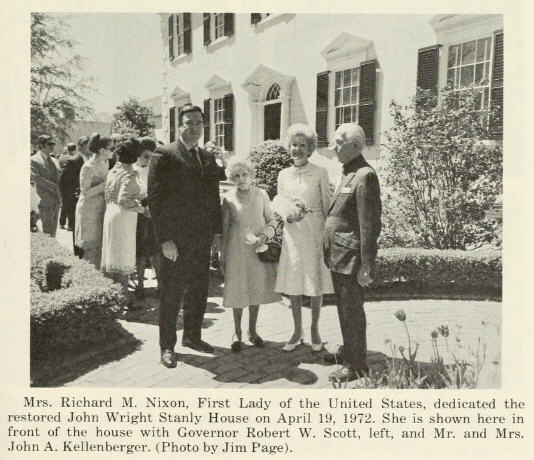 Mrs. Richard M. (Pat) Nixon visits North Carolina. Also pictured are Governor Robert W. Scott (left) and Mr. and Mrs. John A. Kellenberger (